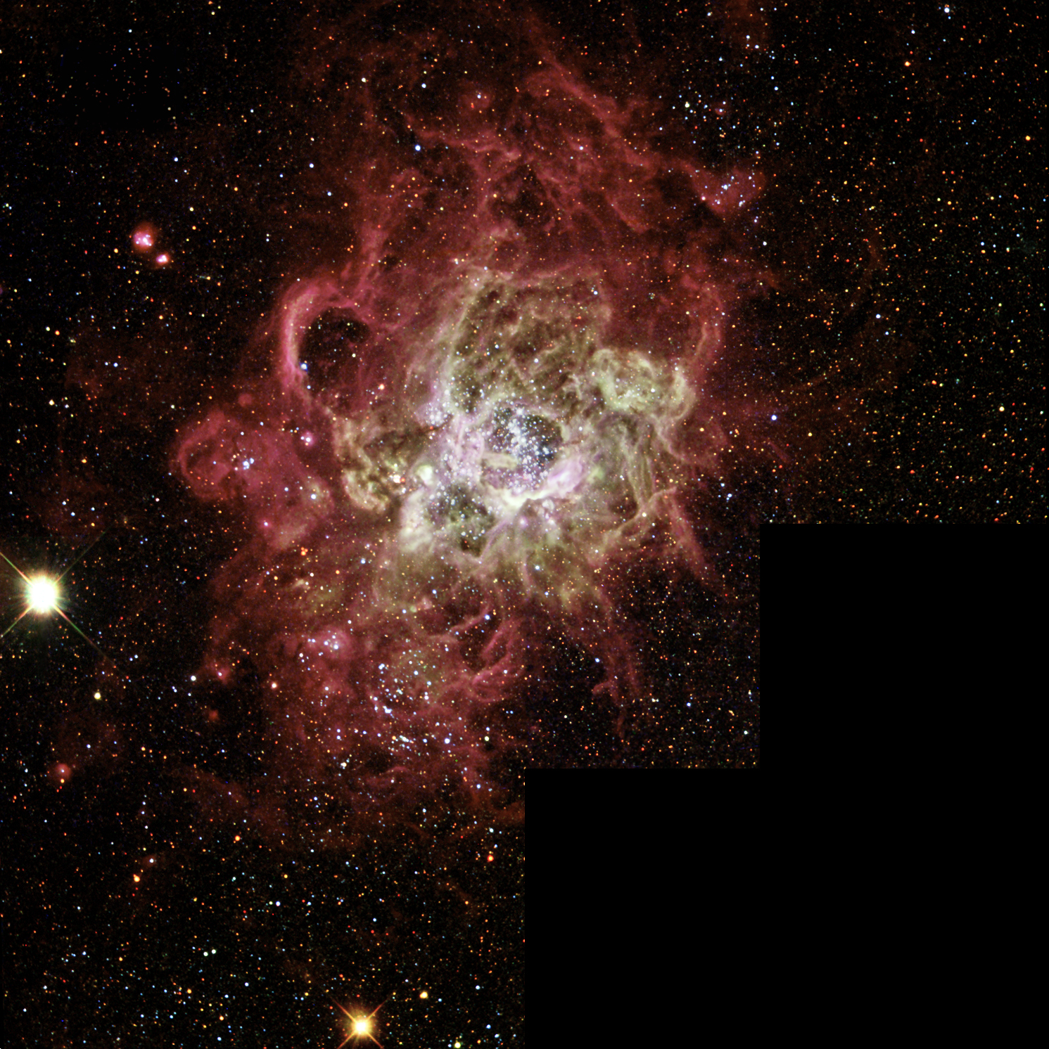 This festively colorful nebula, called NGC 604, is one of the largest known seething cauldrons of star birth in a nearby galaxy. NGC 604 is similar to familiar star-birth regions in our Milky Way galaxy, such as the Orion Nebula, but it is vastly larger in extent and contains many more recently formed stars. This monstrous star-birth region contains more than 200 brilliant blue stars within a cloud of glowing gases some 1,300 light-years across, nearly 100 times the size of the Orion Nebula. By contrast, the Orion Nebula contains just four bright central stars. The bright stars in NGC 604 are extremely young by astronomical standards, having formed a mere 3 million years ago. Most of the brightest and hottest stars form a loose cluster located within a cavity near the center of the nebula. Stellar winds from these hot blue stars, along with supernova explosions, are responsible for carving out the hole at the center. The most massive stars in NGC 604 exceed 120 times the mass of our Sun, and their surface temperatures are as hot as 72,000 degrees Fahrenheit (40,000 Kelvin). Ultraviolet radiation floods out from these hot stars, making the surrounding nebular gas fluoresce. NGC 604 lies in a spiral arm of the nearby galaxy M33, located about 2.7 million light-years away in the direction of the constellation Triangulum. M33 is a member of the Local Group of galaxies that also includes the Milky Way and the Andromeda Galaxy. The image of NGC 604 was assembled from observations taken with Hubble's Wide Field Planetary Camera 2 in 1994, 1995, and 2001. Color filters were used to isolate light emitted by hydrogen, oxygen, nitrogen, and sulfur atoms in the nebula and ultraviolet, visible and infrared light from the stars within NGC 604 and the nearby spiral arms of M33. Image processors from the Hubble Heritage team at the Space Telescope Science Institute combined these various filter images to create this color picture.